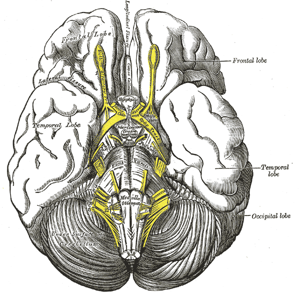 Anatomy of the base of the human brain - diagram